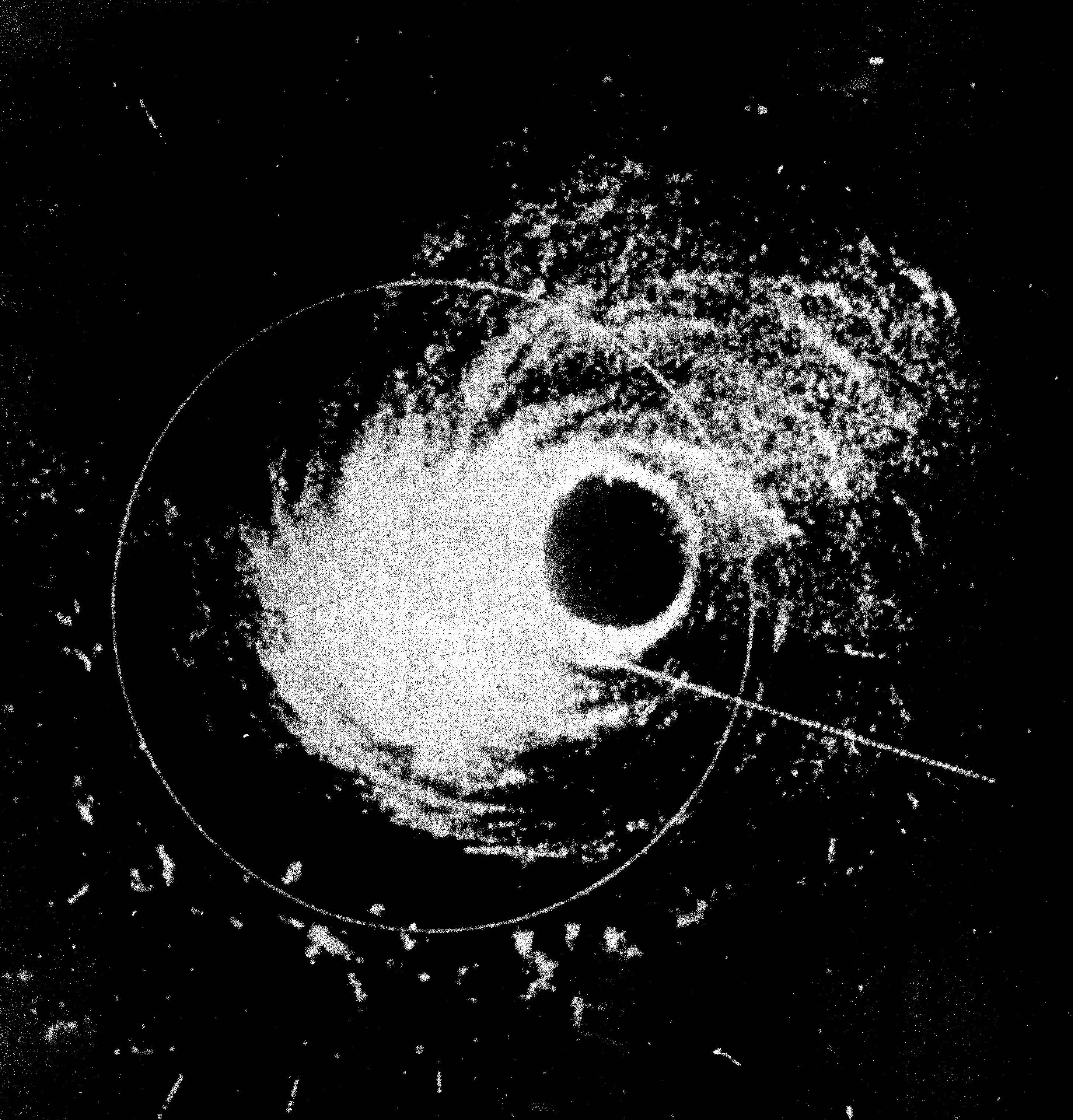 Radar image of Hurricane Hattie at peak intensity prior to making landfall on the British Honduras. (Cropped version)